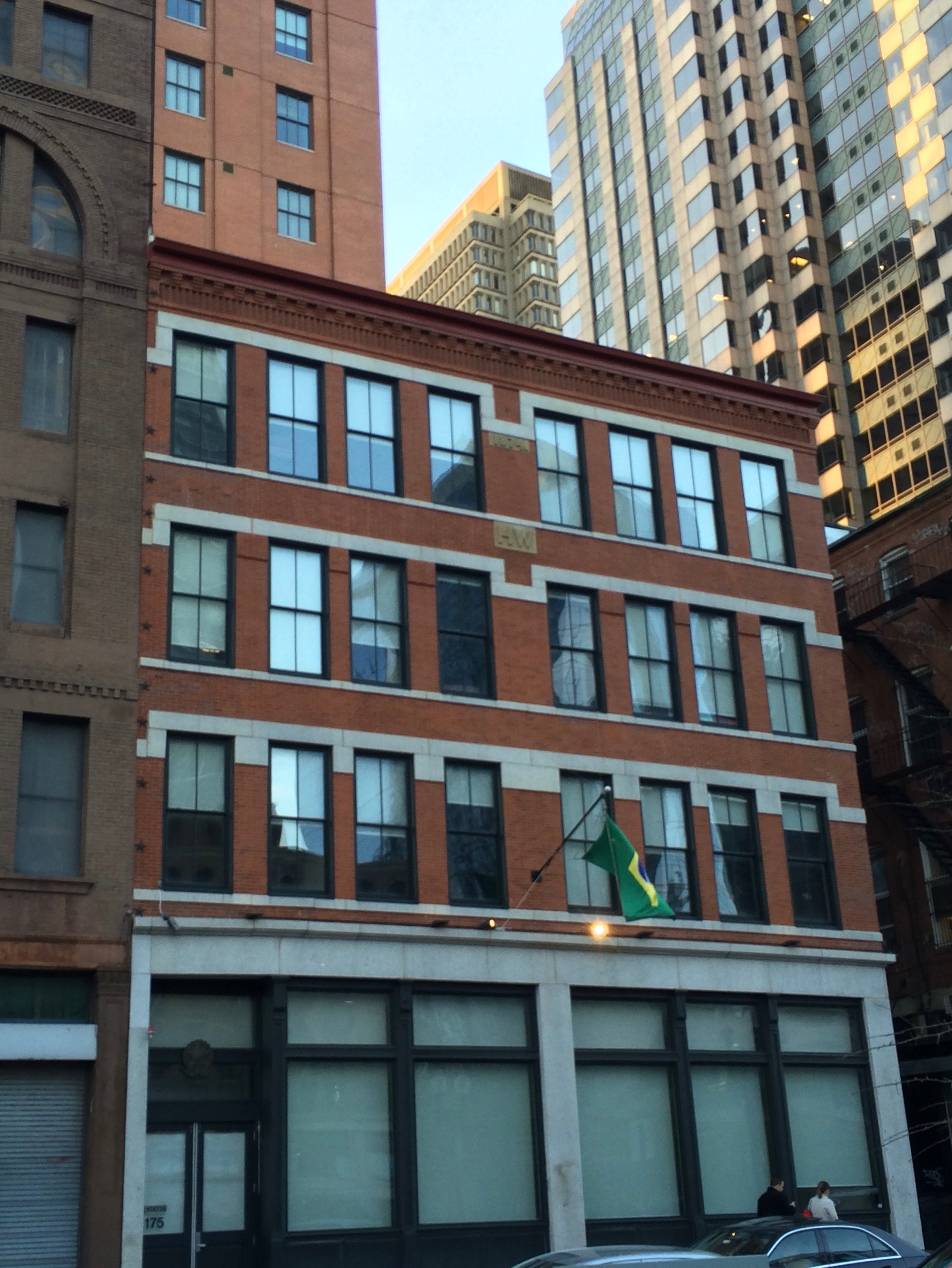 Picture of the Consulate General of Brazil in Boston, MA.